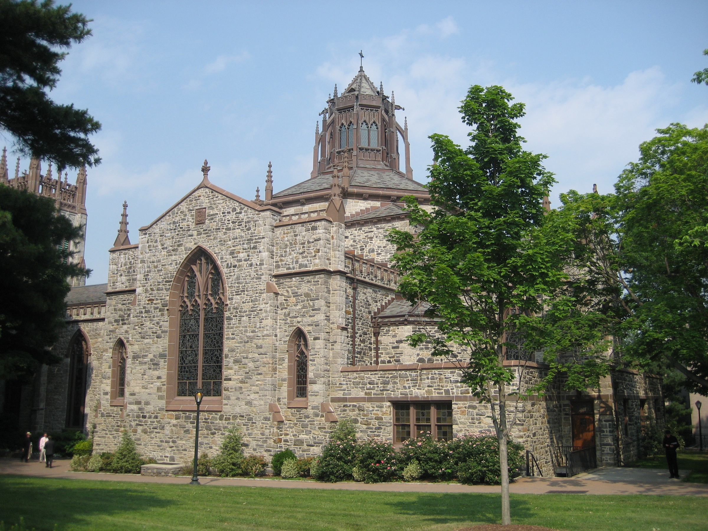 Fr. Greg's ordination